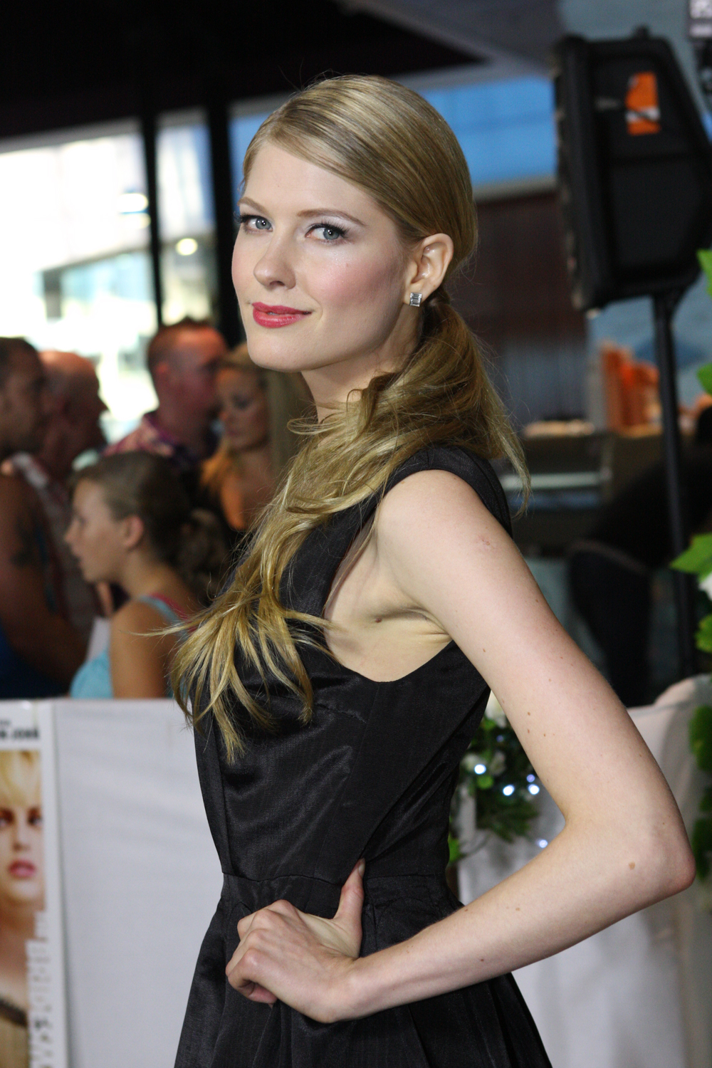 A Few Best Men Red Carpet Movie Premiere In Sydney, Australia A Few Best Men enjoyed its Sydney red carpet premiere earlier this evening at Bondi Junction's Event Cinema. In essence, it's a a comedy about a groom and his three best men who travel to the Australian outback for a wedding. The flick has numerous Sydney based media men and women tipping that this may be just the start of a reinvigoration of Olivia Newton-John's acting career, but its really too early to know for sure. Maybe O-N-J and her agent know something we don't. Twilight Eclipse hunk Xavier Samuel stars as the film's hapless bridegroom. British thespians Kris Marshall (Death At A Funeral) Kevin Bishop (Spanish Apartment), and Australian comedy star Rebel Wilson was there, as was Laura Brent (Chronicles of Narnia), Steve Le Marquand (Beneath Hill 60) and Tangle actor Tim Draxl. Even local MP Malcolm Turnbull and wife Lucy showed up in support. The flick, which was filmed in Sydney and the Blue Mountains, is hoped to be a return to form for Elliott, who has had mixed success since his 1994 smash hit The Adventures of Priscilla: Queen of the Desert. It's quite an unlikely acting platform for Newton-John, who many film industry commentators say her last decent film role was alongside John Travolta in Two of a Kind back in 1983. Elliott told the media that the Aussie singer/actress has fitted in well with the rest of the cast. "She's great. Everyone's coming together really well and she's really getting into it," he said. A Few Best Men opens in cinemas nationally on January 26, 2012. Director: Stephan Elliott Writers: Dean Craig Stars: Rebel Wilson, Olivia Newton-John and Xavier Samuel Websites A Few Best Men official website Icon Film Distribution Event Cinemas Nix Co Eva Rinaldi Photography Flickr Eva Rinaldi Photography Splash News Music News Australia